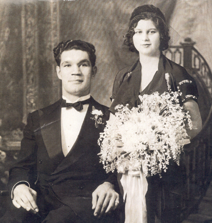 Santa Camarão with a childhood friend in Ovar, Portugal, where he returned after retiring from boxing and stayed until his death